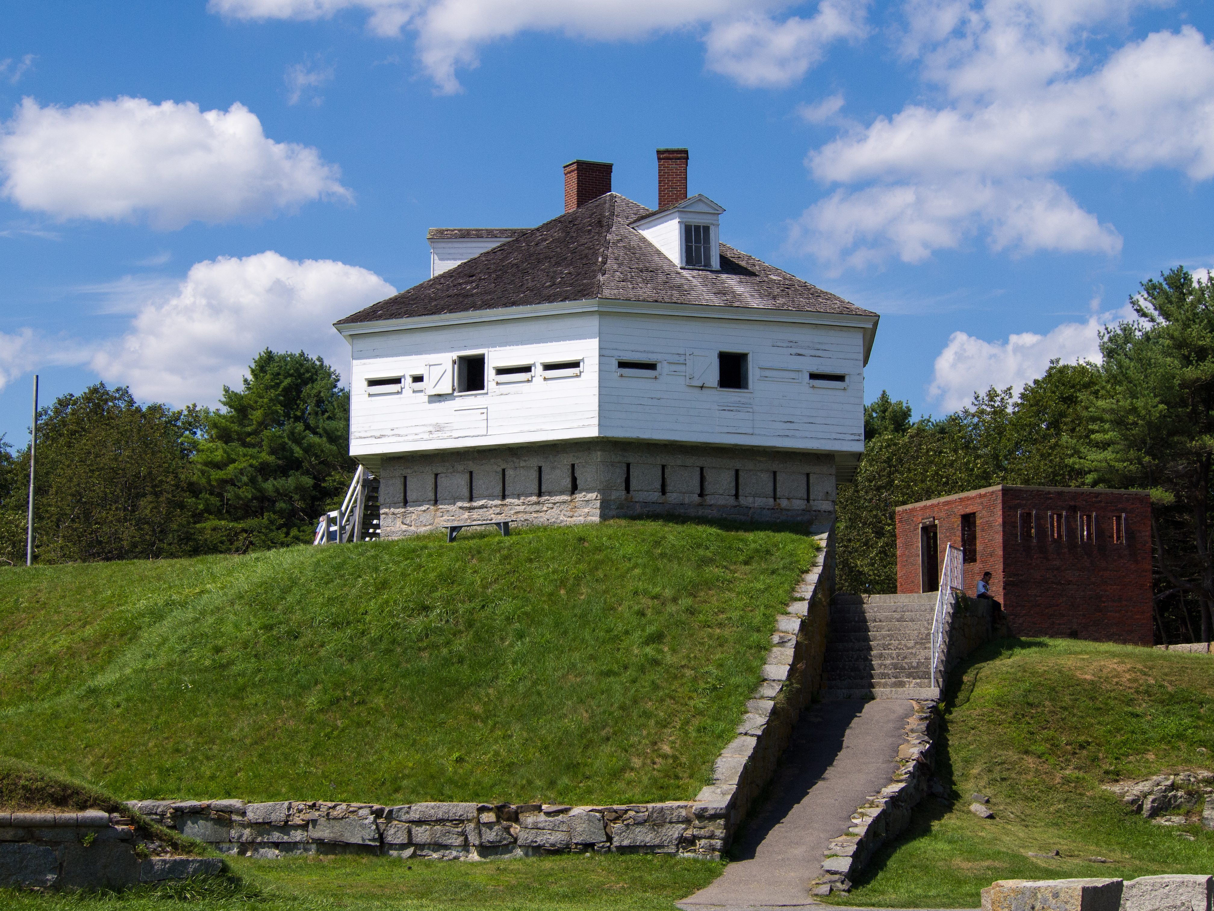 Fort McClary